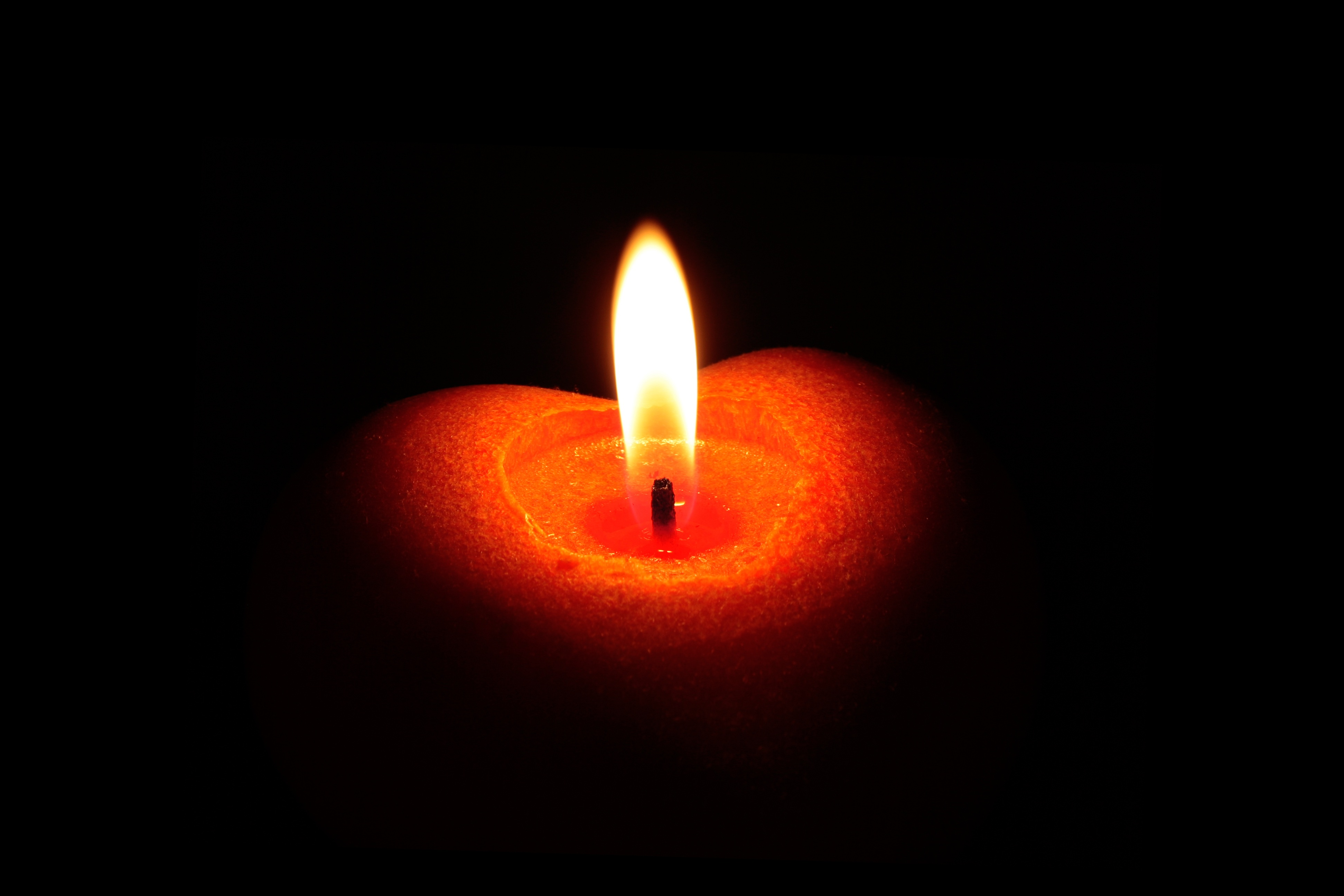 The emotional warm glow of helping others